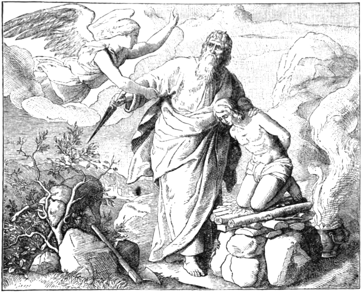 Abraham Offers Isaac, as in Genesis 22:11-13; illustration from Henry Davenport Northrop’s 1894 Treasures of the Bible